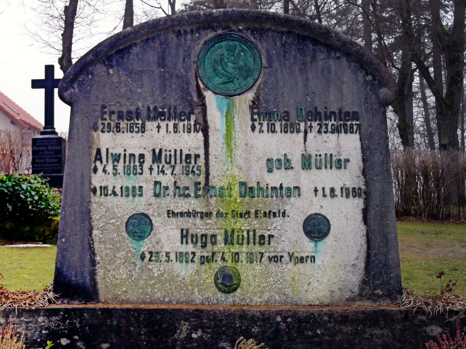 Grave of Dr. h.c. Ernst Dahinten in Eisfeld